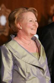 Janette Howard after arriving at the Sydney Opera House for the APEC dinner.